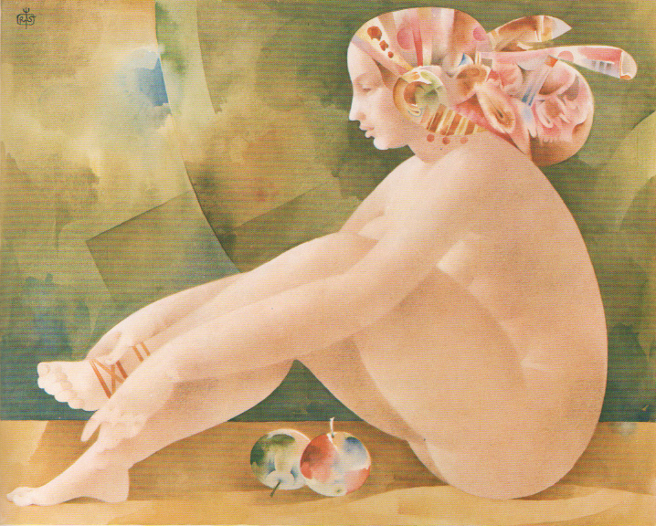 The painting 'Particles' by Radomir Stevic Ras